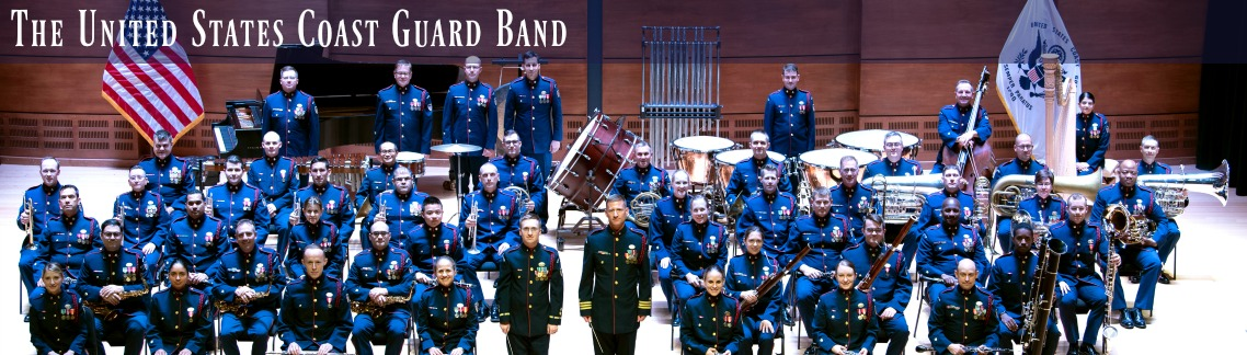 THE USCG band poses for a photo